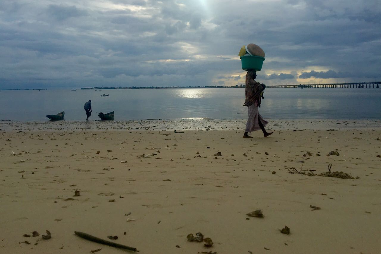 Mozambican woman transporting dishes on her head to be washed in the ocean. Ilha de Moçambique, March 2017 This is an image of "African people at work" from Mozambique